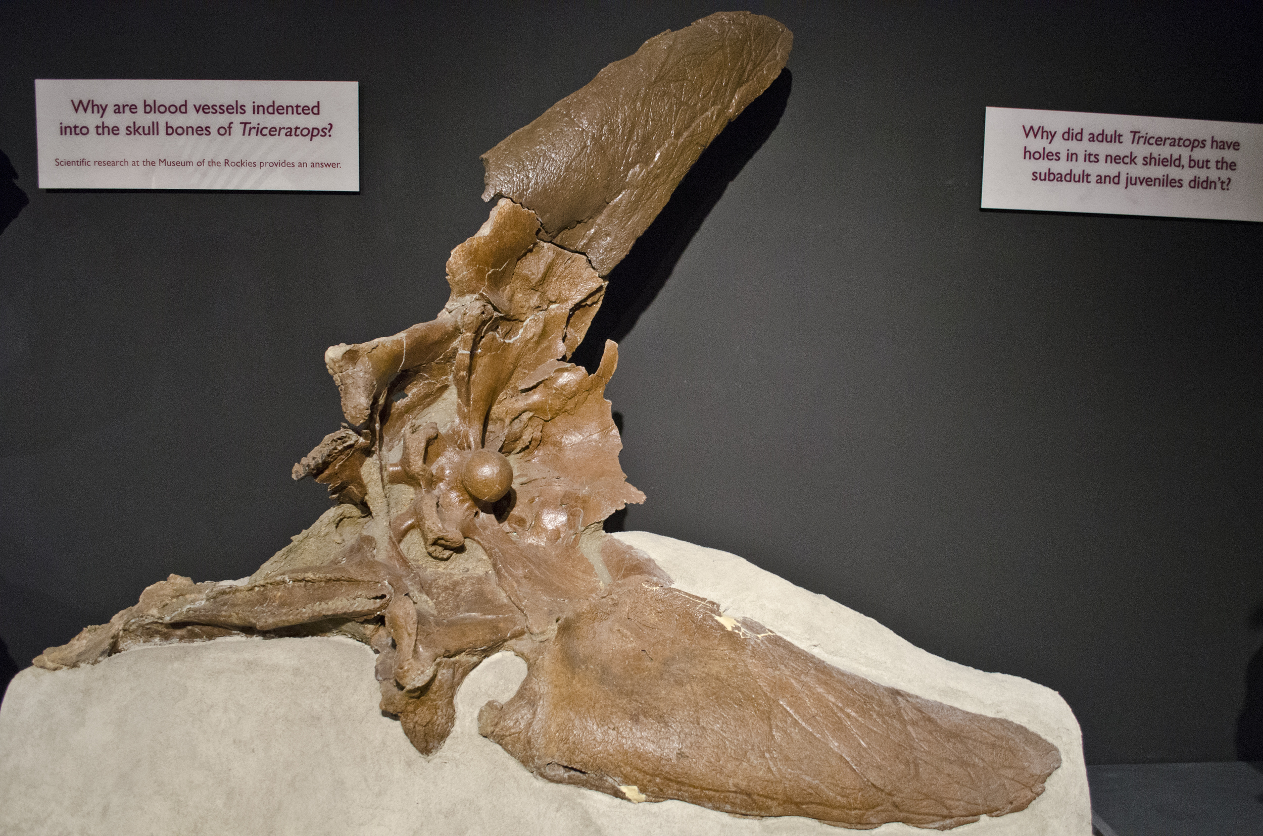 A Triceratops horridus skull at the Museum of the Rockies in Bozeman, Montana. The skull is lying on its right side, and you are seeing the back. The frill would be in the open space between the two "arms" top and to the right. The huge ball in the skull is known as the "occipital condyle", and it connected the skull to the spine. It fit into a socket in the uppermost vertebrae, and all the vertebrae near this connection were reinforced with long V-shaped splinters of bone known as "vetebral ribs". This created what scientists call the "atlas/axis complex" -- a massively reinforced area that supported the heavy Triceratops head. This fossil was collected in Fergus County, Montana.